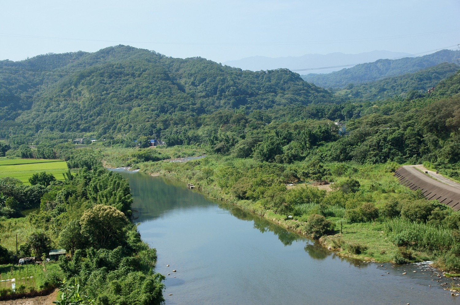 Feng-Shan River, Taiwan